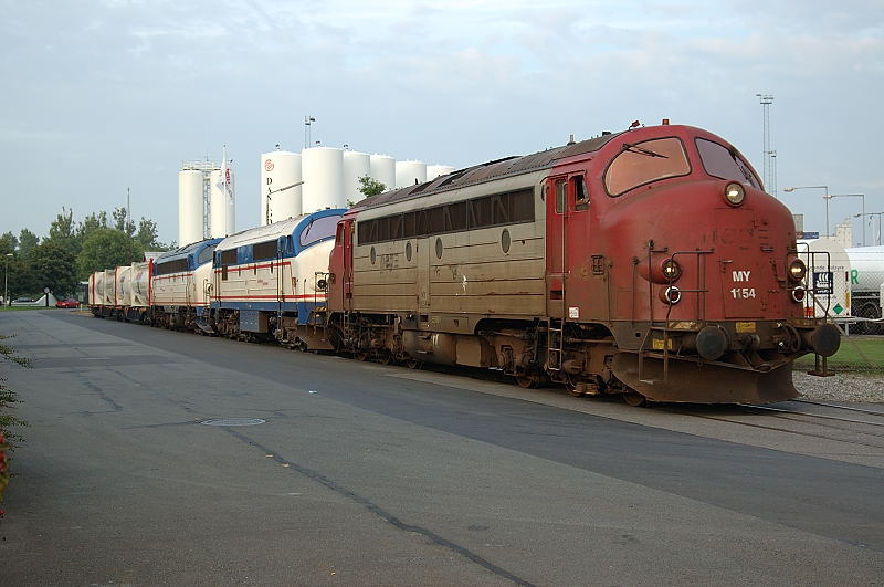 CFL Cargo Danmark with a containertrain in the harbour of Fredericia.